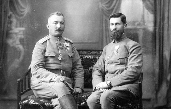 Alexander Protogerov and Todor Alexandrov in bulgarian army officer uniforms (1912-1918)